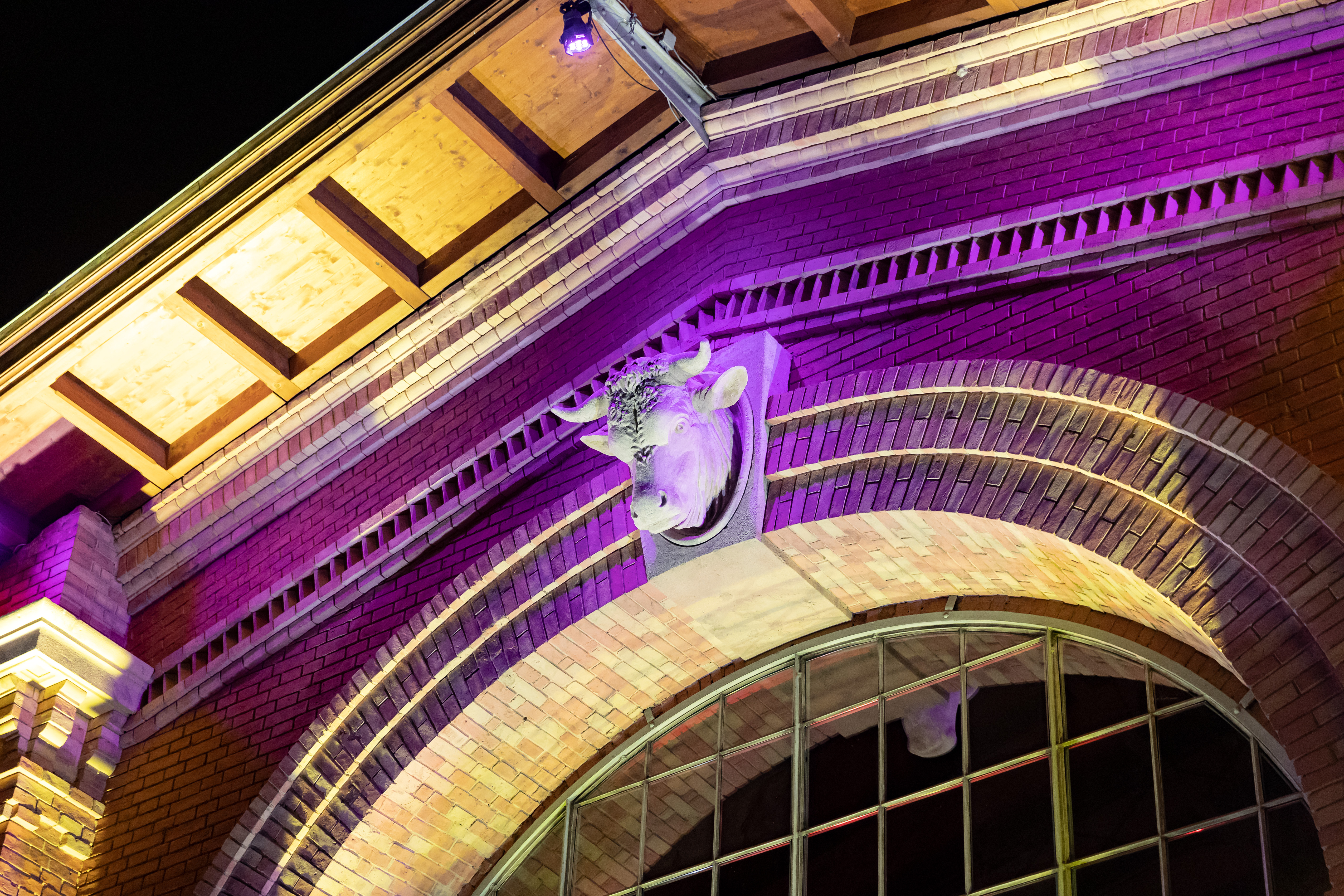 Marx-Halle in Sankt Marx, Vienna, Austria on the evening of the gala for Austria's Sports Personalities of the Year2019.